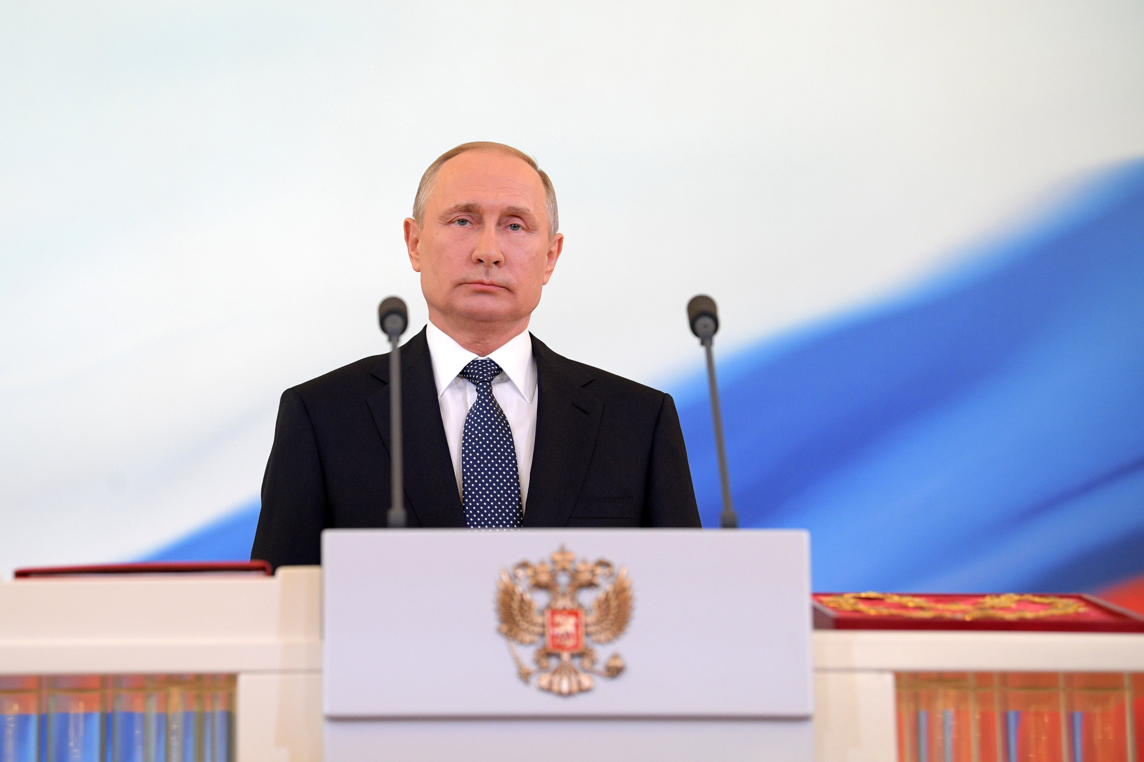 Vladimir Putin has been sworn in as President of Russia (2018-05-07)